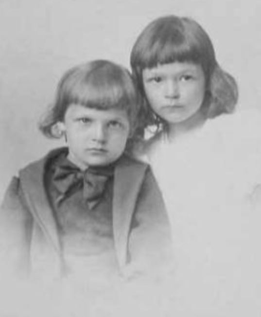 Roland Paris